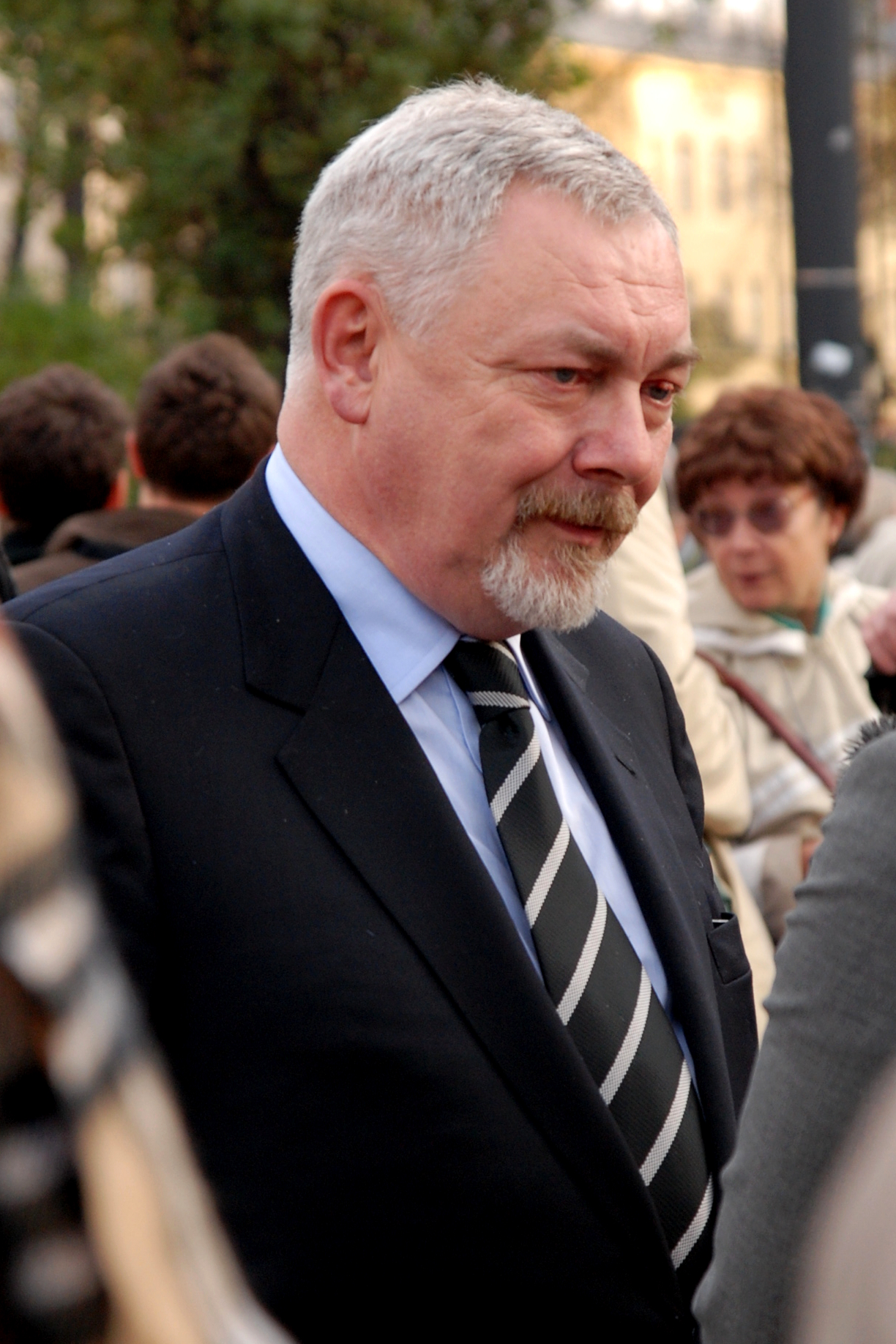 Jacek Majchrowski, president of Krakow, during the inauguration of Józef Piłsudski monument in Krakow.